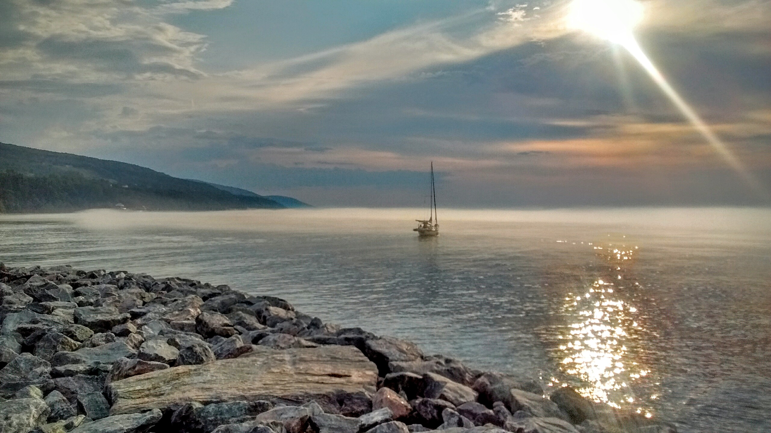 Peaceful sunrise